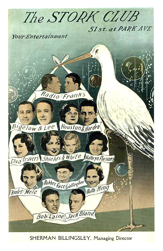 Front of a postcard sent out by the Stork Club to notify patrons about the present and coming floor shows at the club. After the club moved to East 53rd Street in 1934 and factions like the Society and Celebrity crowds became fixtures at the club, live entertaiment was offered. When it became evident that people were interested in seeing and being seen by others, the floor show was abandoned in favor of expensive gifts to keep the regulars returning.